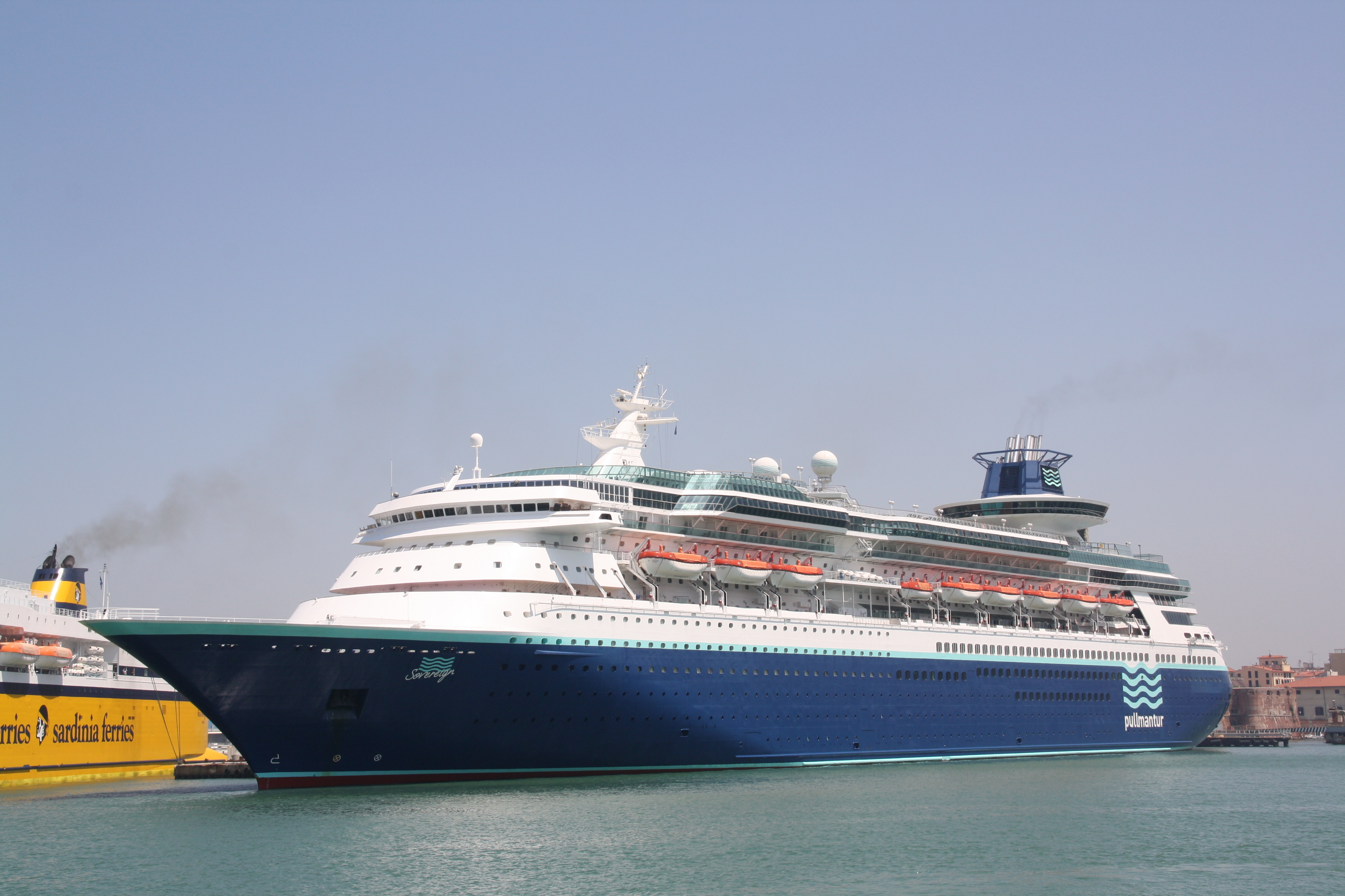 Shipowner: Pullmantur Cruises, Madrid, Spain IMO: 8512281 MMSI: 249539000 Call sign: 9HUE9 Type: Cruise ship Builder: Chantiers de l’Atlantique, Saint-Nazaire, France Yard number: A29 Keel laid: June 10, 1986 Launch date: April 4, 1987 Completion date: January 16, 1988 Port of registry: Valletta Gross tonnage: 73,529 t Net tonnage: 45,194 t DWT: 7,546 t Length overall: 268.32 m Breadth: 36.00 m Draught: 7.82 m Main engine: 4 x Pielstick-Alsthom 9 cyl diesel engines Engine power: 20,476 kW Speed: 21 knots Passengers: 2,852 Crews: 825